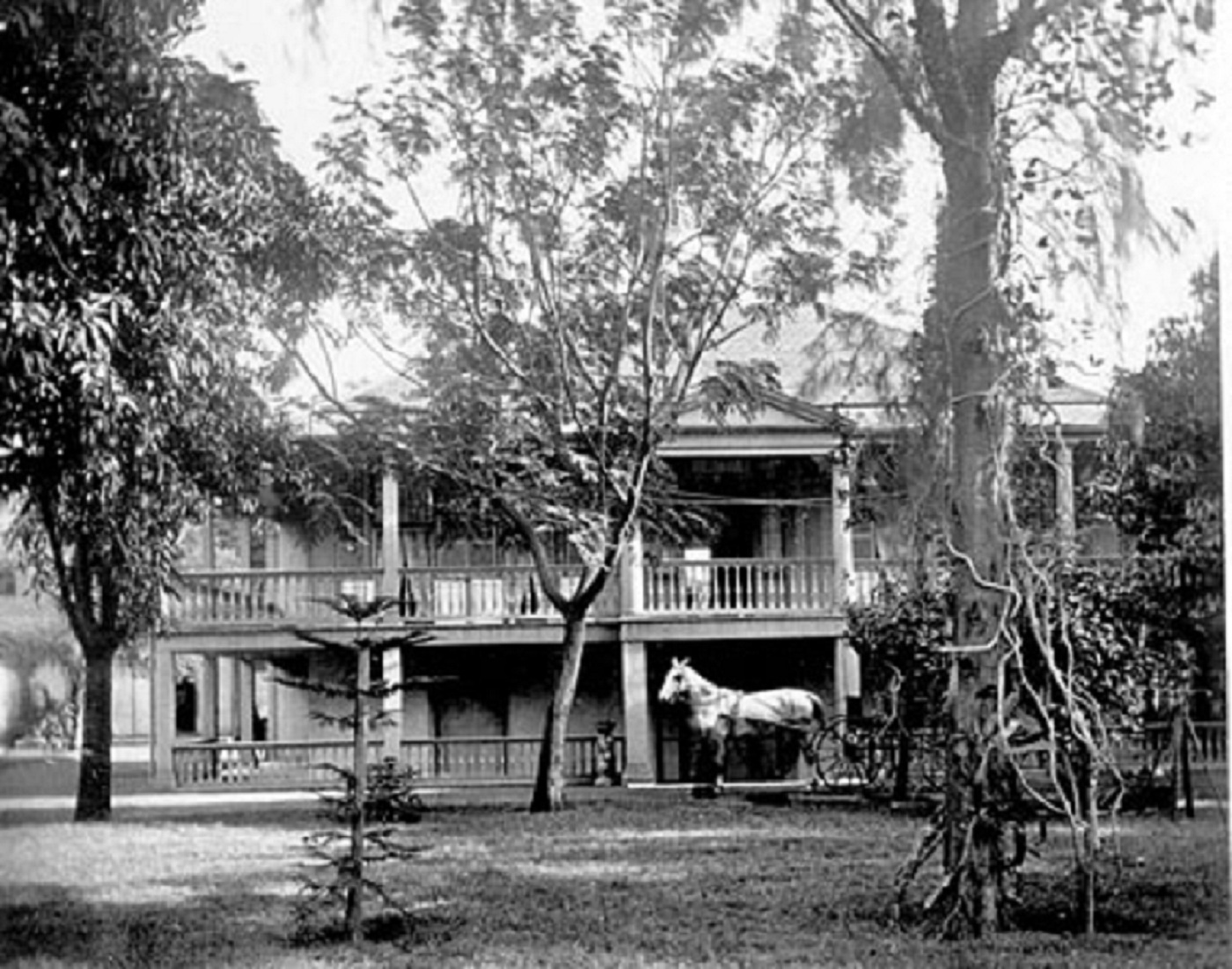 Rooke House the childhood home of Queen Emma of Hawaii build by her father Dr. Thomas Charles Byde Rooke. The land it was on was called Kaopuana.